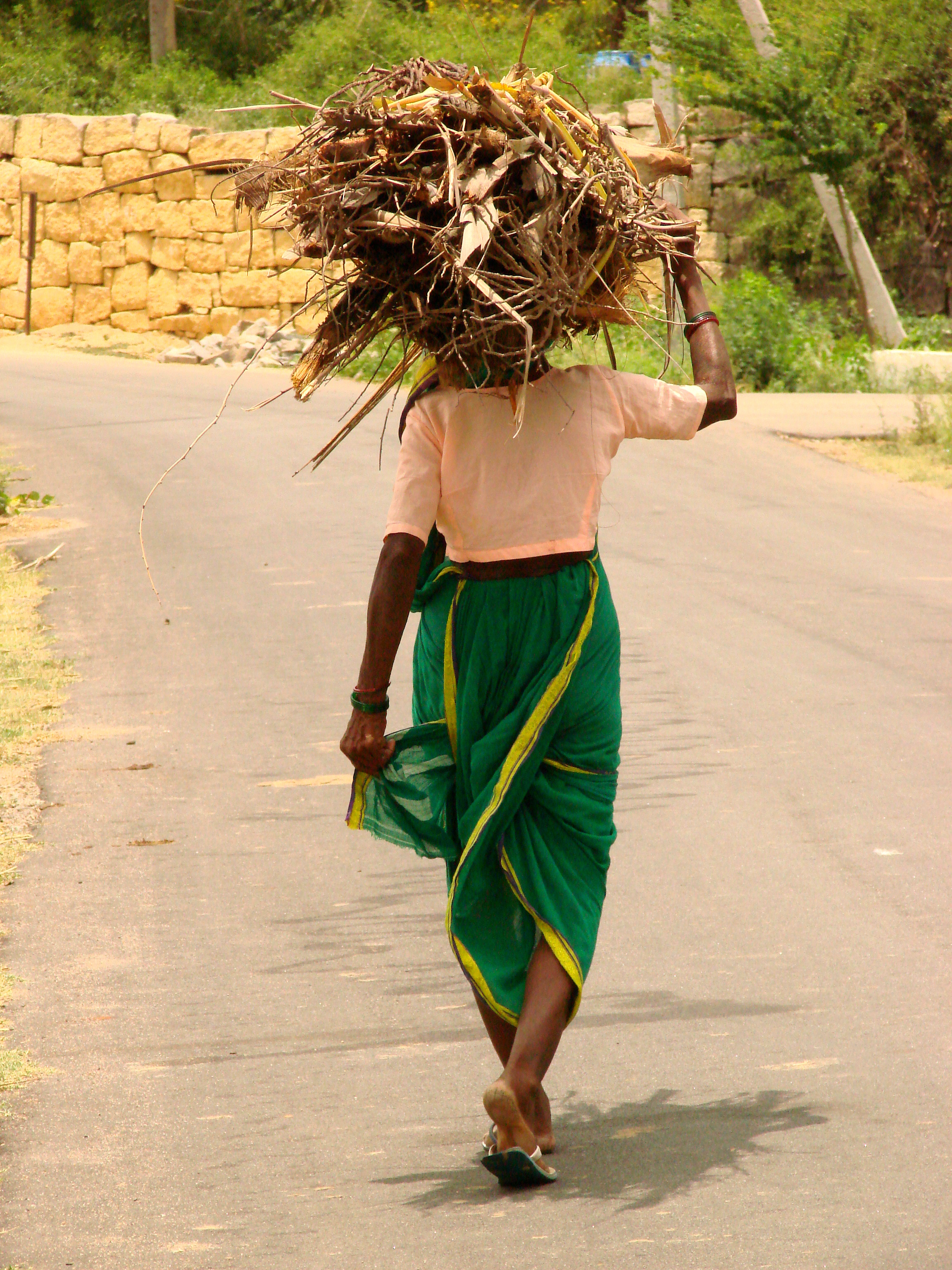 Woman walks with bundle of sticks on her head, near Hampi village, India. July 2008.